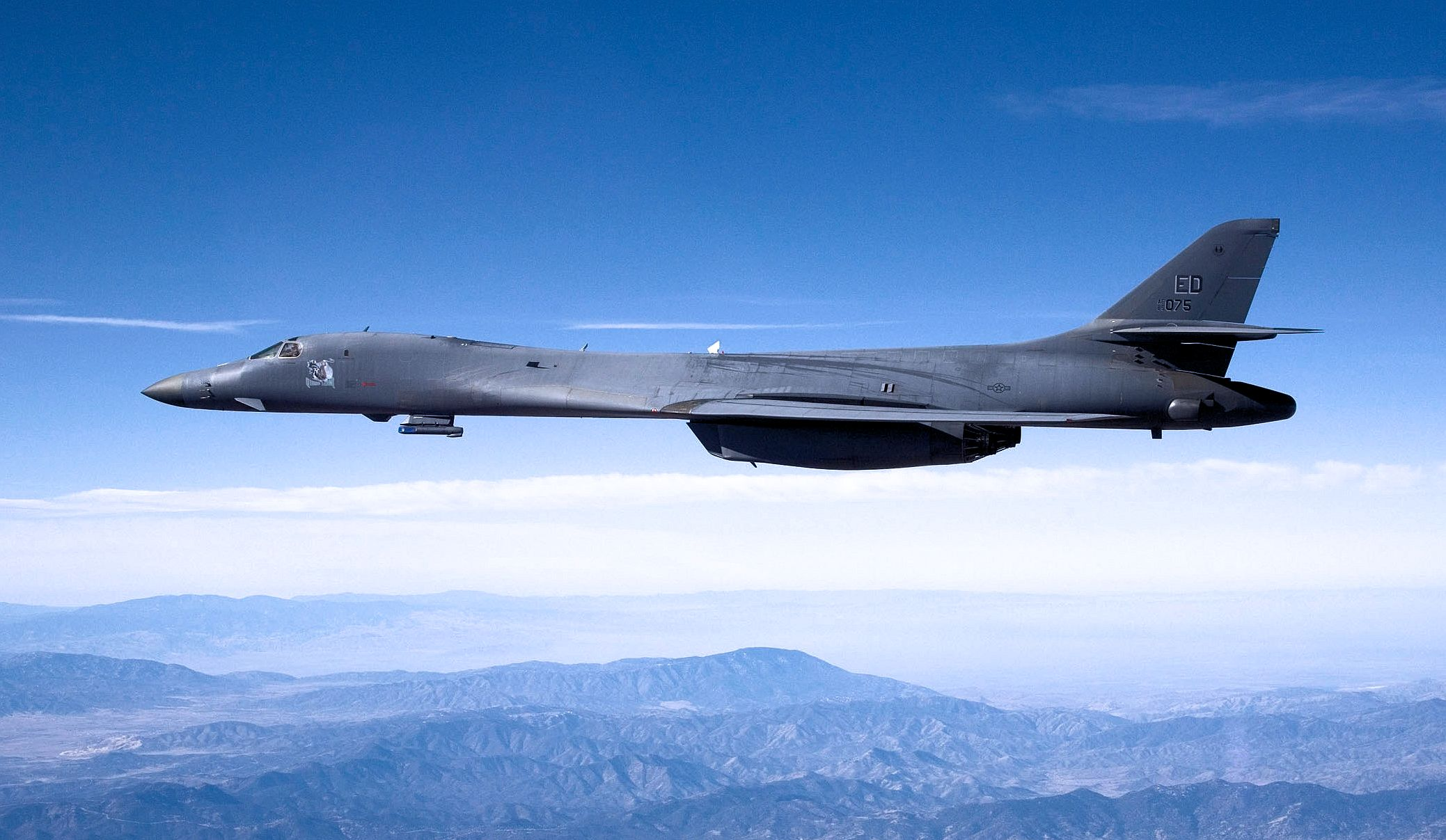 419th Flight Test Squadron - Rockwell B-1B Lancer Lot IV 85-0075 A B-1B Lancer carries the Sniper pod on its belly as it flies over Edwards' skies during a flight test. The 419th Flight Test Squadron testers recently concluded the initial development of the Sniper pod installed on a B-1B here recently. The Sniper pod is an advanced targeting pod with a multi-sensor system that increases the aircraft's self-targeting capability. (Photo by Steve Zapka)